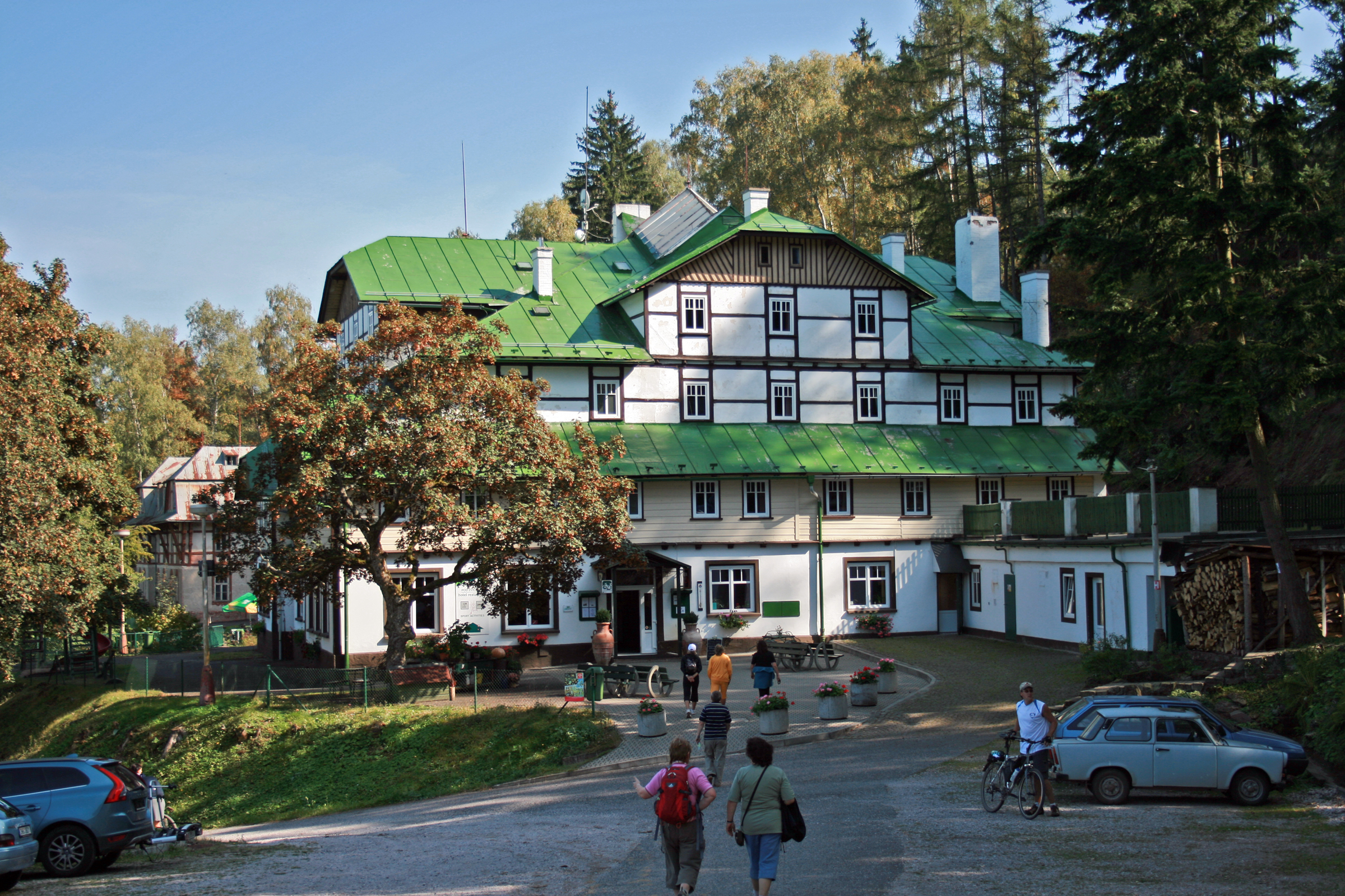 Hotel Pod Zvičinou on the hill Zvičina in east Bohemia, Czech Republic